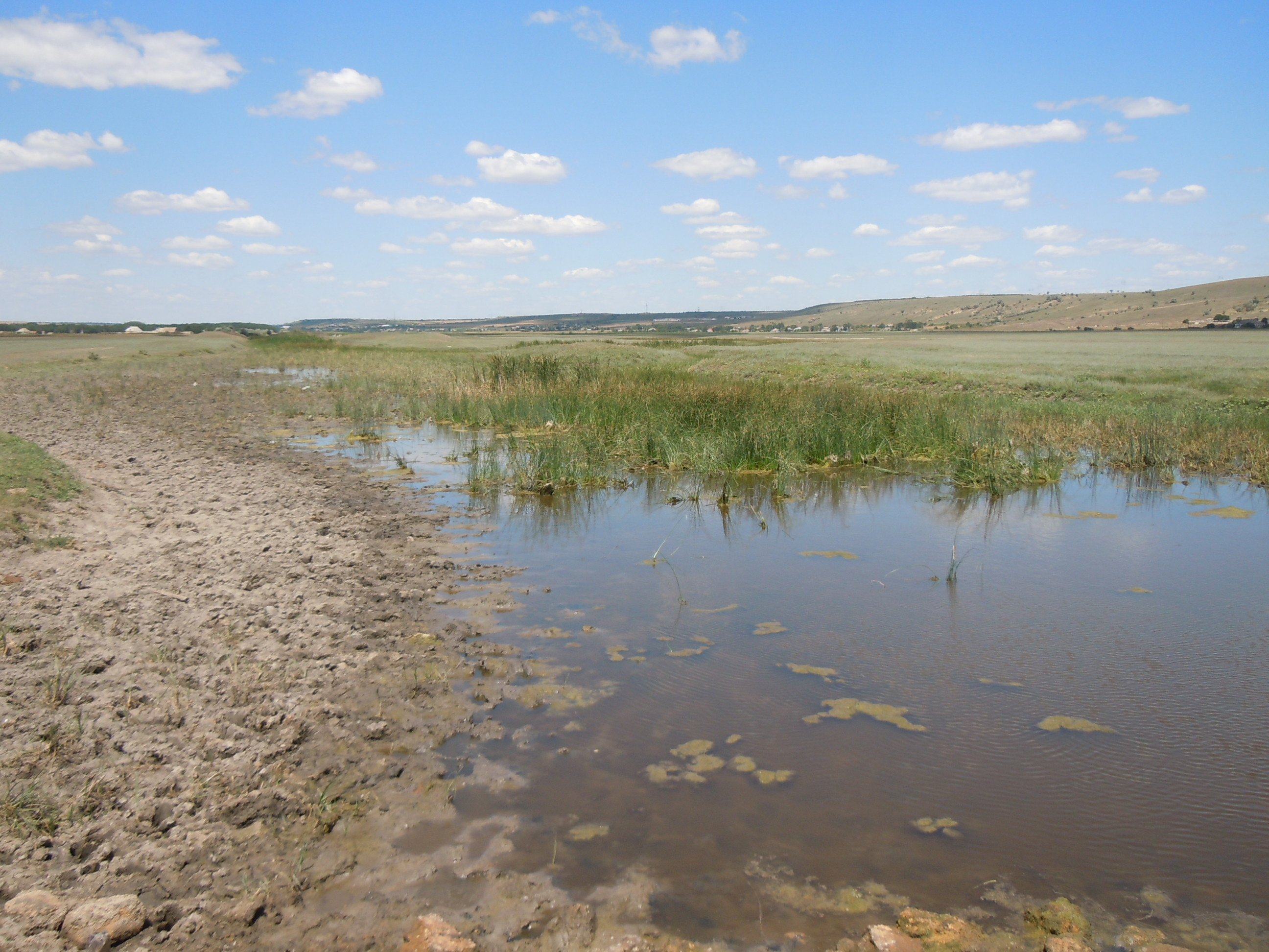 The Velykyi Kuyalnyk River near the Village of Severynivka, Odessa Oblast, Ukraine